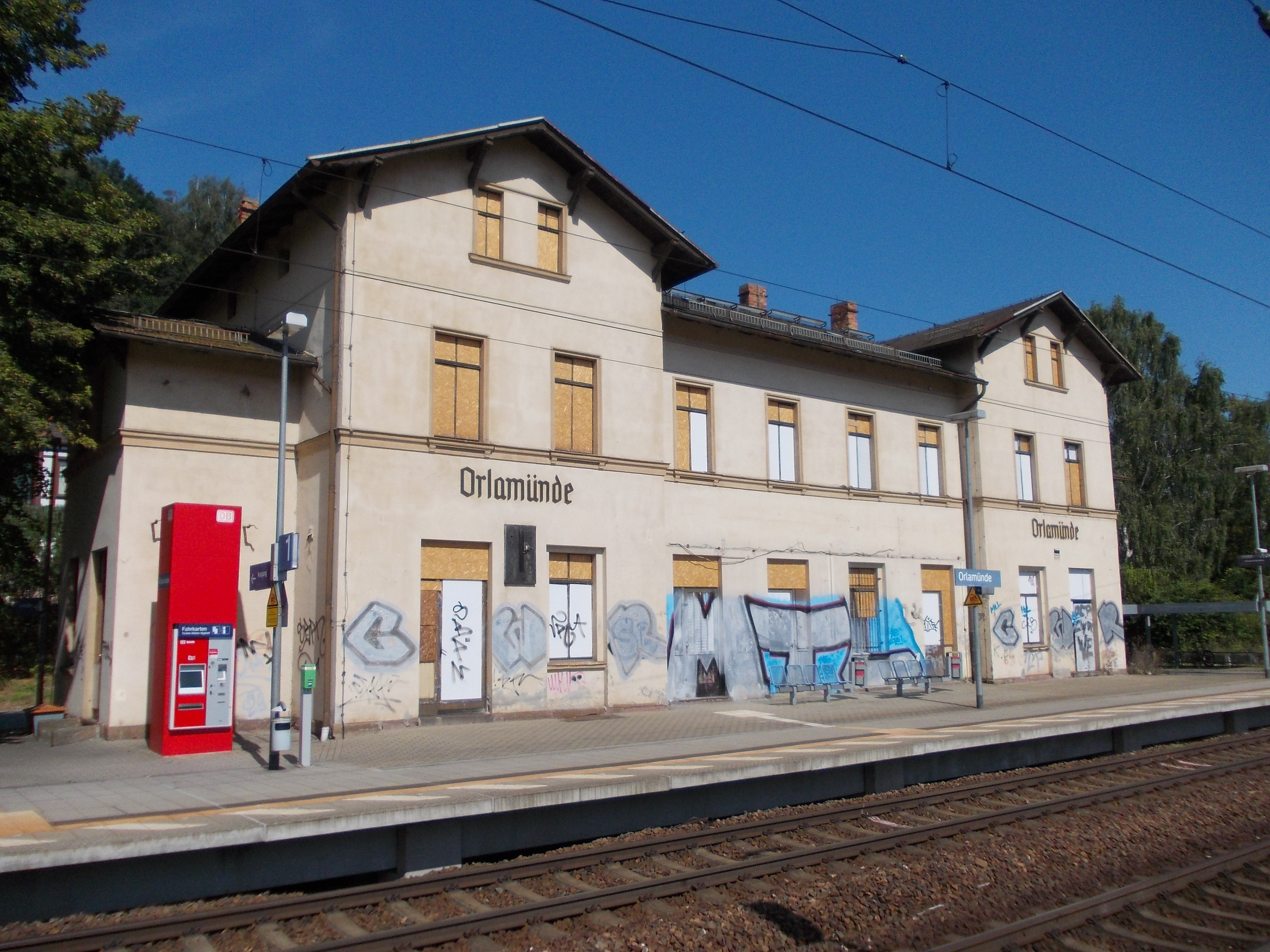 Orlamünde train station (district: Saale-Holzland-Kreis, Thuringia)